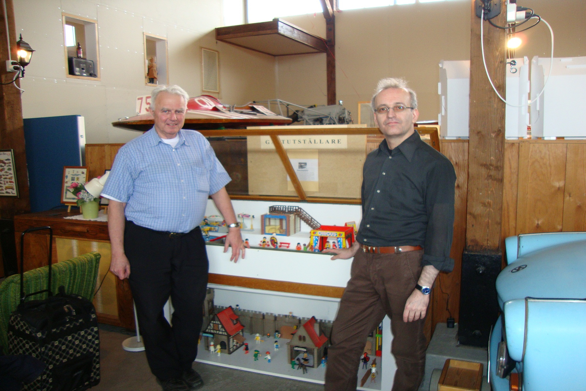 In front of the guest showcase at Museihuset in Linköping, you see Hans Vaerneus, their proud Museum director to the left and Allan Gutheim to the right. Open from May till September 2012.